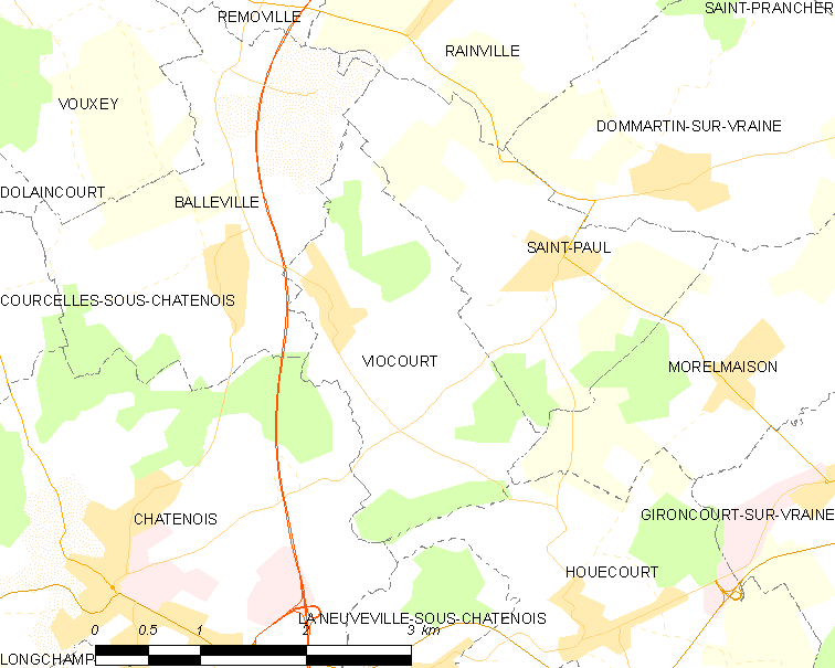 Map of French municipality Viocourt